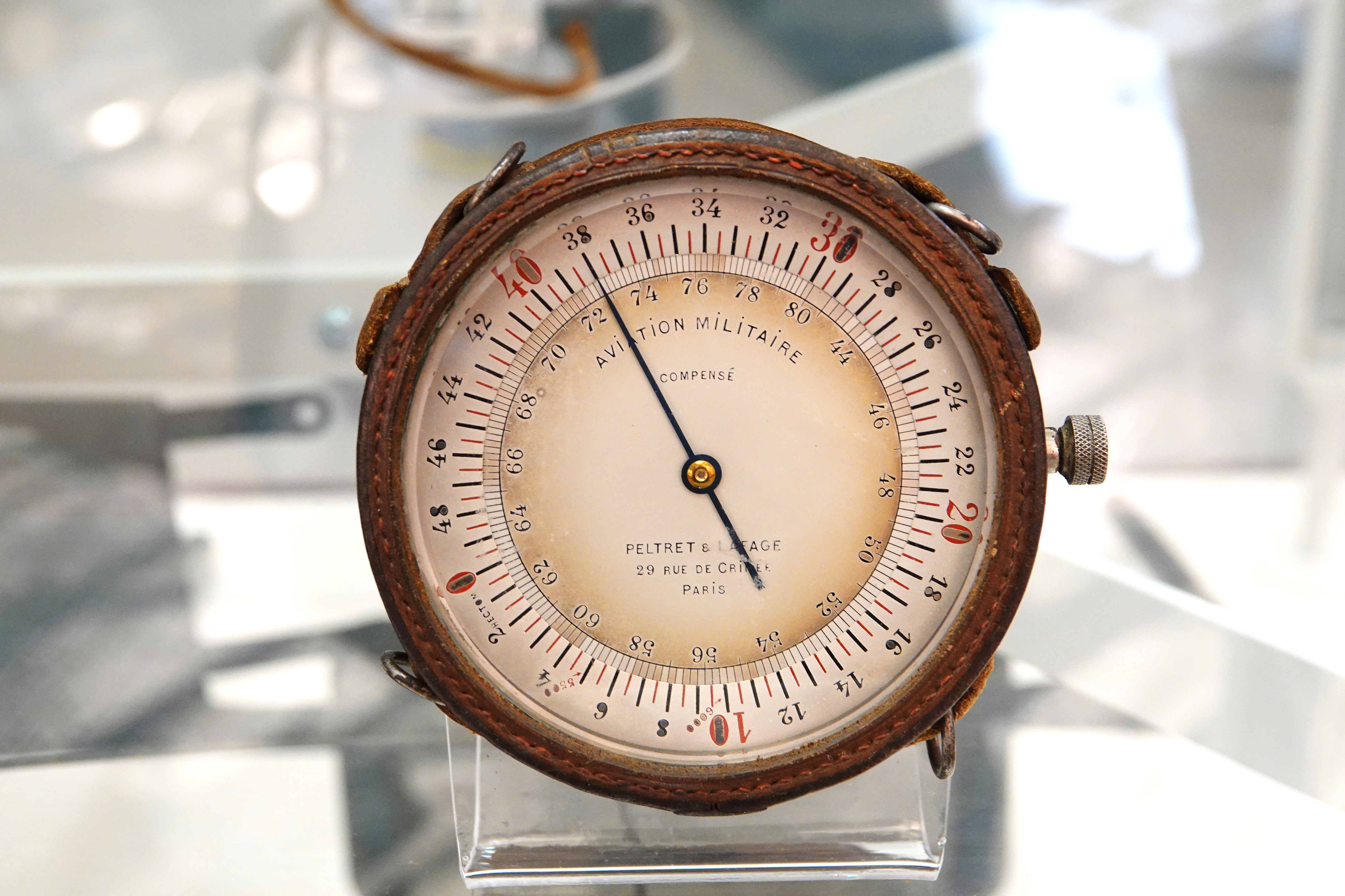 Picture of an altimeter from an aircraft ﬂown by Lafayette Escadrille pilot Norman Prince. Picture taken at the National Air and Space Museum's Steven F. Udvar-Hazy Center in Chantilly, Virginia, USA - Gift of Frederick H. Prince Jr.